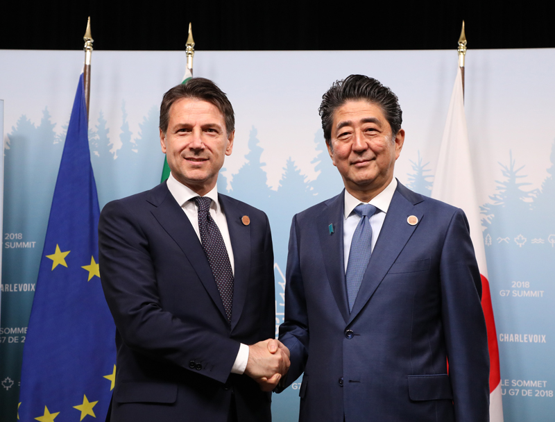 Prime Minister of Japan Shinzō Abe and Prime Minister of Italy Giuseppe Conte at the 44th G7 summit.